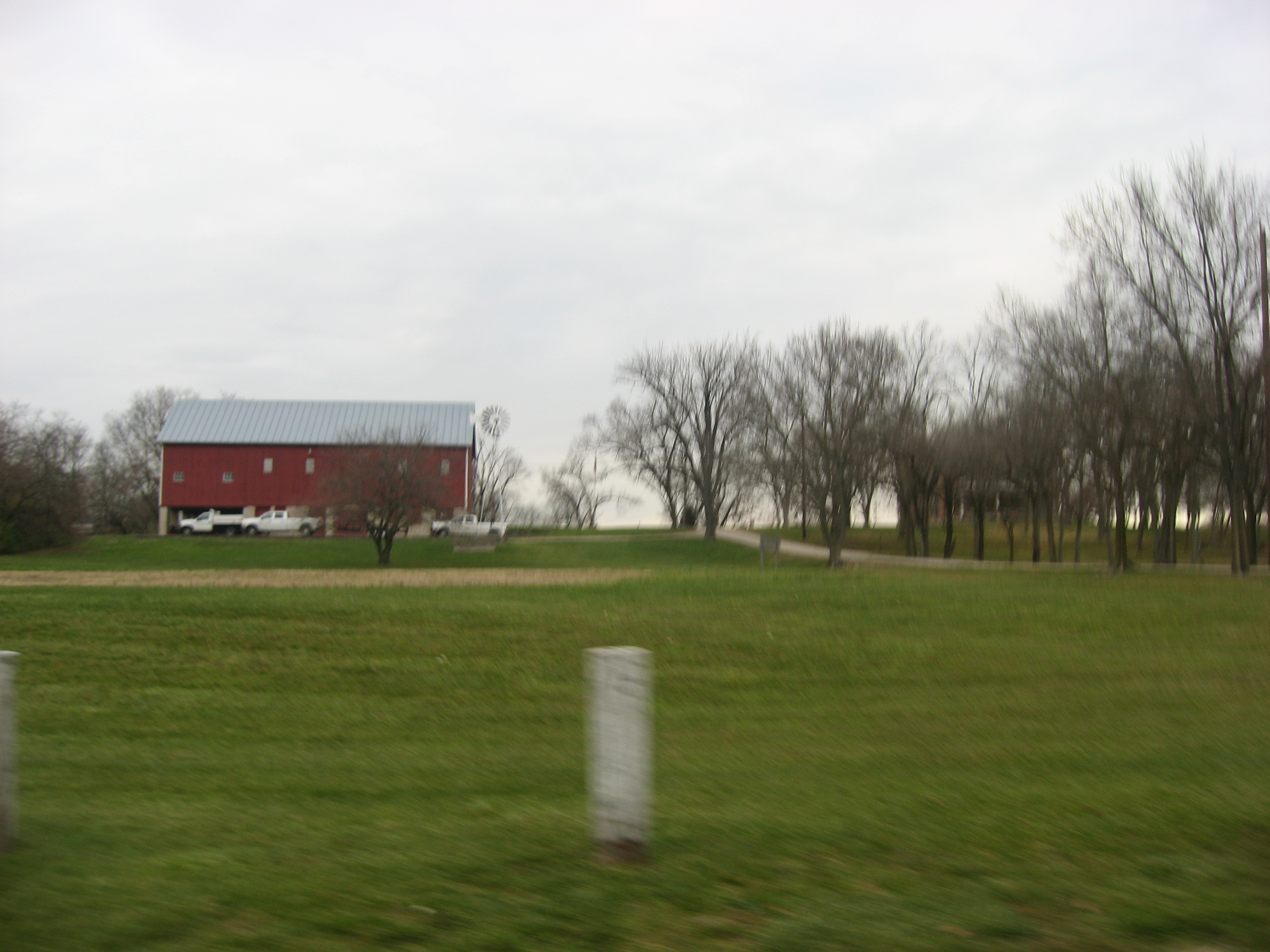 Roadside view of the house (in the trees) and a barn at the Samuel Augspurger Farm, located at 2070 Woodsdale Road south of Trenton in Madison Township, Butler County, Ohio, United States. Built in 1868 (house), the farm is listed on the National Register of Historic Places.